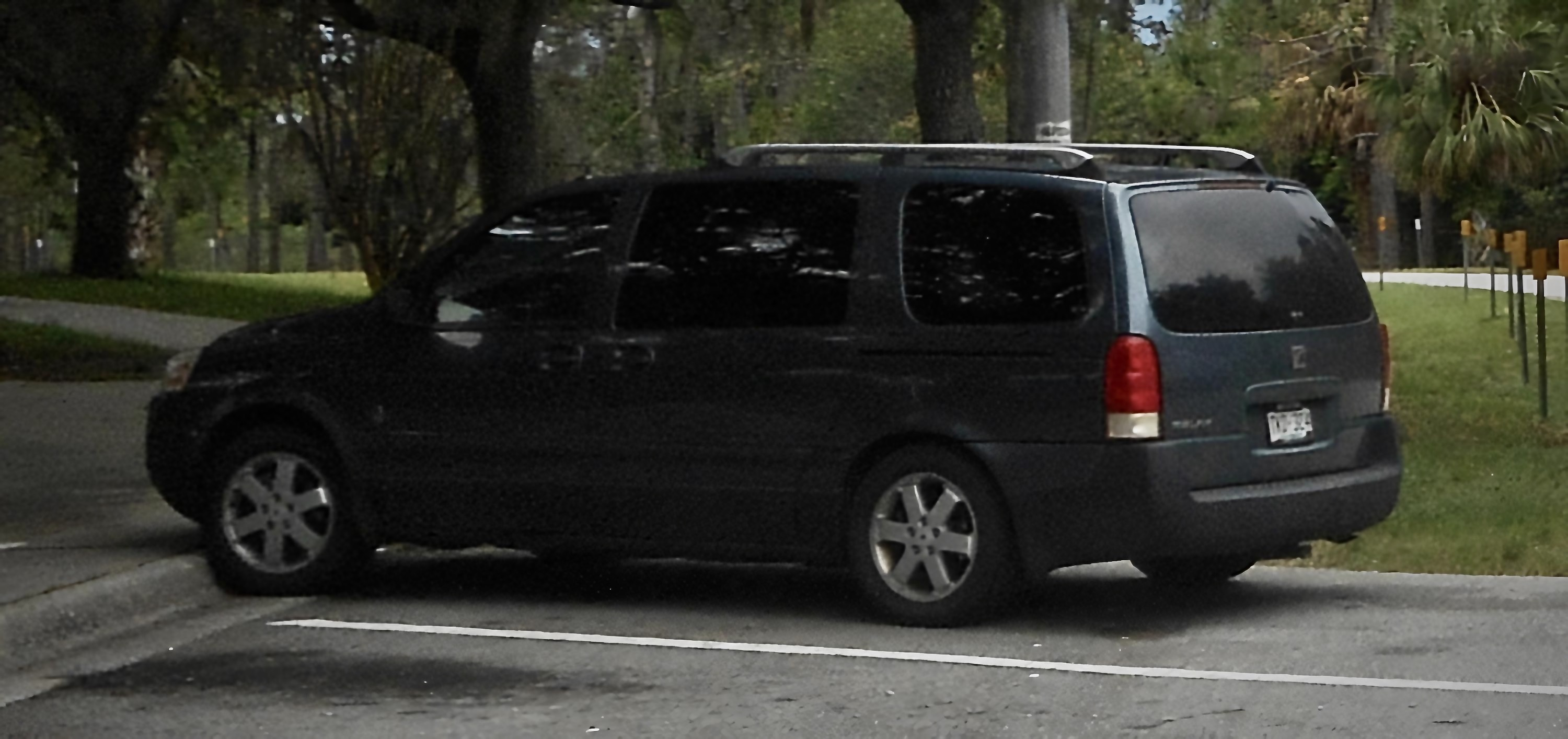 Images related to the westbound rest area along Interstate 4 near Auburndale, Florida. Further details and a rename to come later.